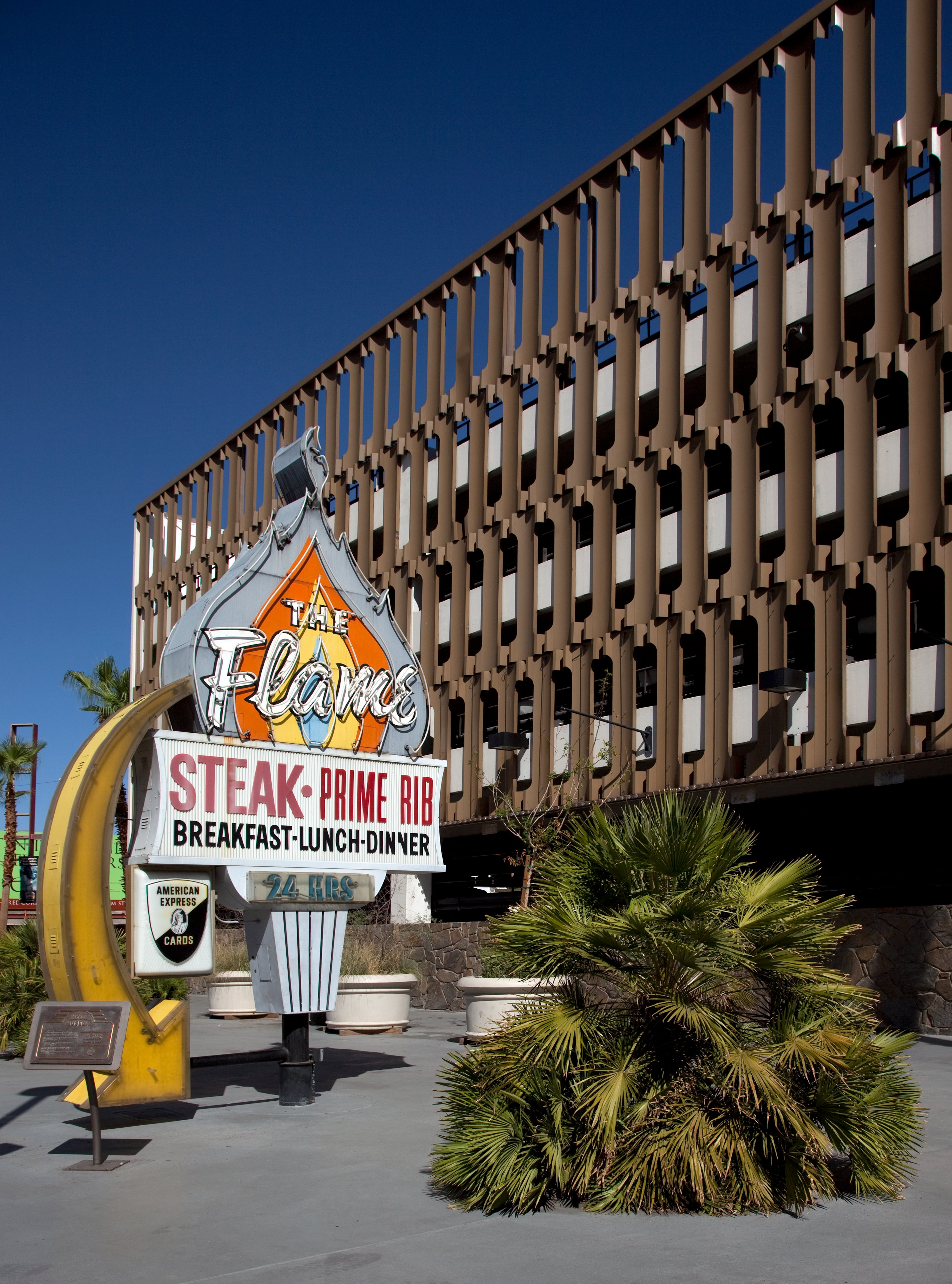 Title: The Flame Restaurant sign from the historic Las Vegas Neon Museum, Freemont Street, Las Vegas, Nevada. Note: This sign was previously on display on Third Street in Downtown Las Vegas.